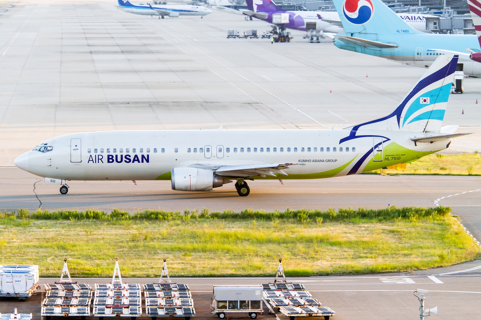 Description needed.